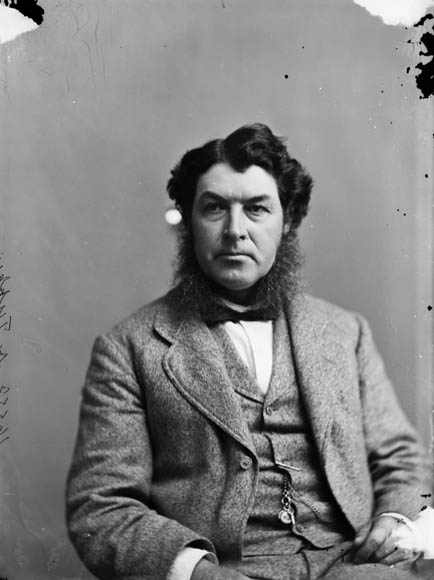 Charles Tupper while Minister of Customs of Canada